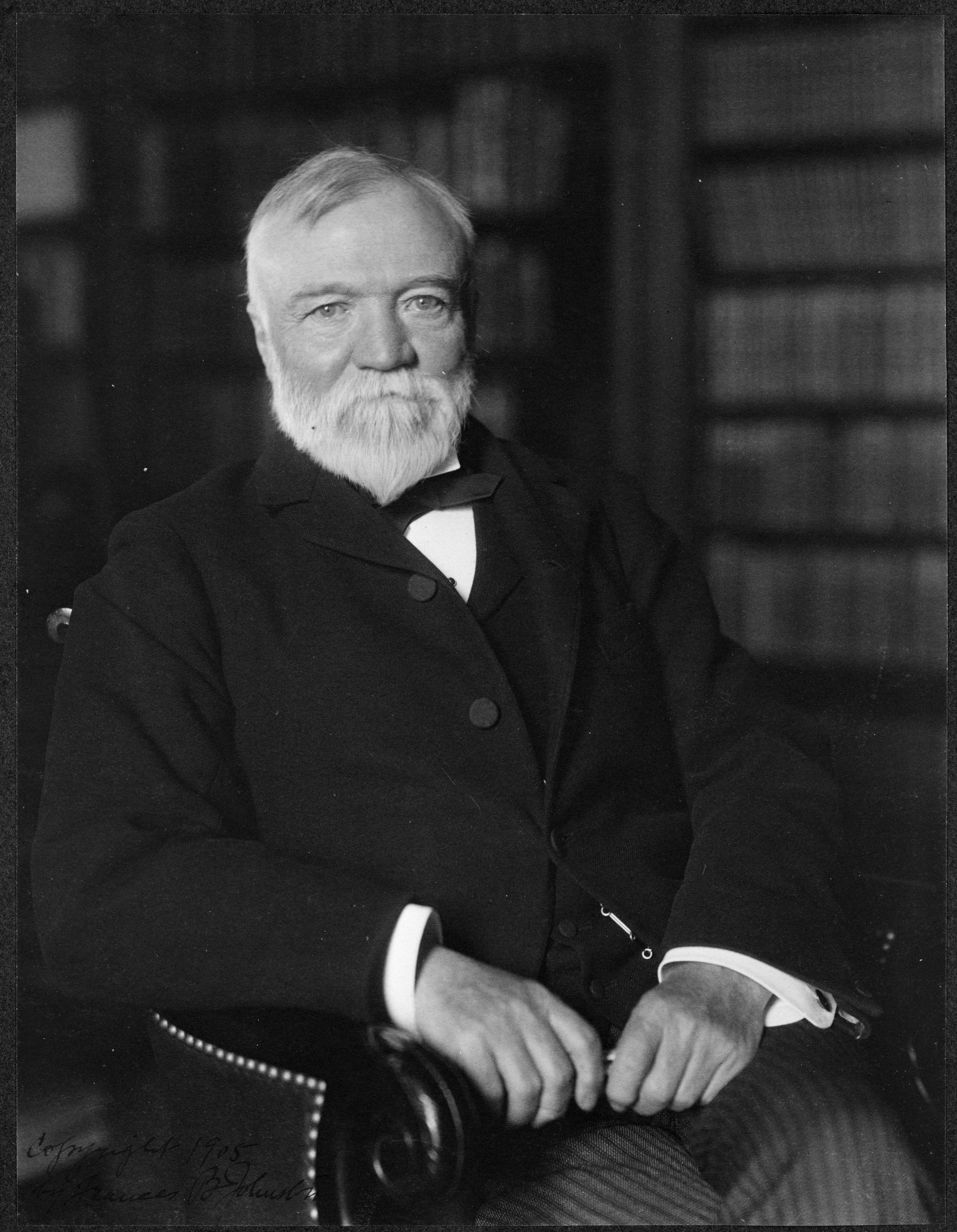 Title Andrew Carnegie, April 1905 Summary Photograph shows Andrew Carnegie, three-quarter length portrait, seated, facing left. Contributor Names Johnston, Frances Benjamin, 1864-1952, photographer Created / Published c1905. Subject Headings - Carnegie, Andrew,--1835-1919 Format Headings Photographic prints--1900-1910. Portrait photographs--1900-1910. Notes - Title and other information transcribed from caption card and item. - No. 0261P; 14D35; 88. - Filed under: Carnegie, Andrew, April 1905 N.Y.C. Townhouse. - Forms part of: Frances Benjamin Johnston Collection (Library of Congress). Medium 1 photographic print. Call Number/Physical Location LOT 11735 [item] [P&P]